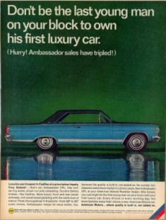 A 1966 magazine advertisement for the AMC Ambassador. The ad is marketing the vehicle. It serves as an example of how American Motors promoted the redesigned models in an attempt to move them to a more upscale market segment. No longer just a producer of economy cars, the new Ambassador was a luxurious model in a reasonable size and at a much lower price than the competition.